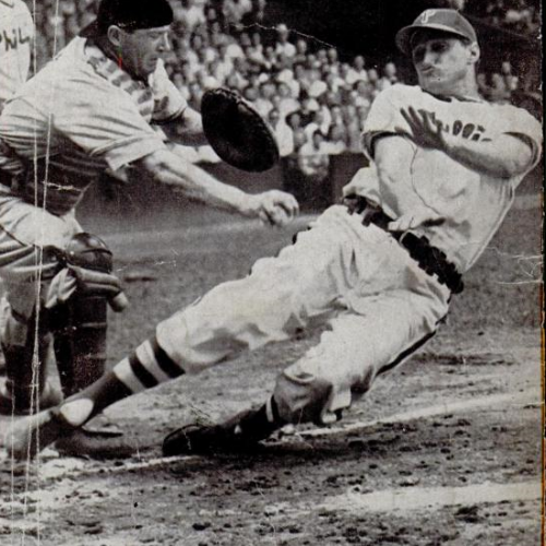 An image of Major League Baseball third baseman Jim Tabor.